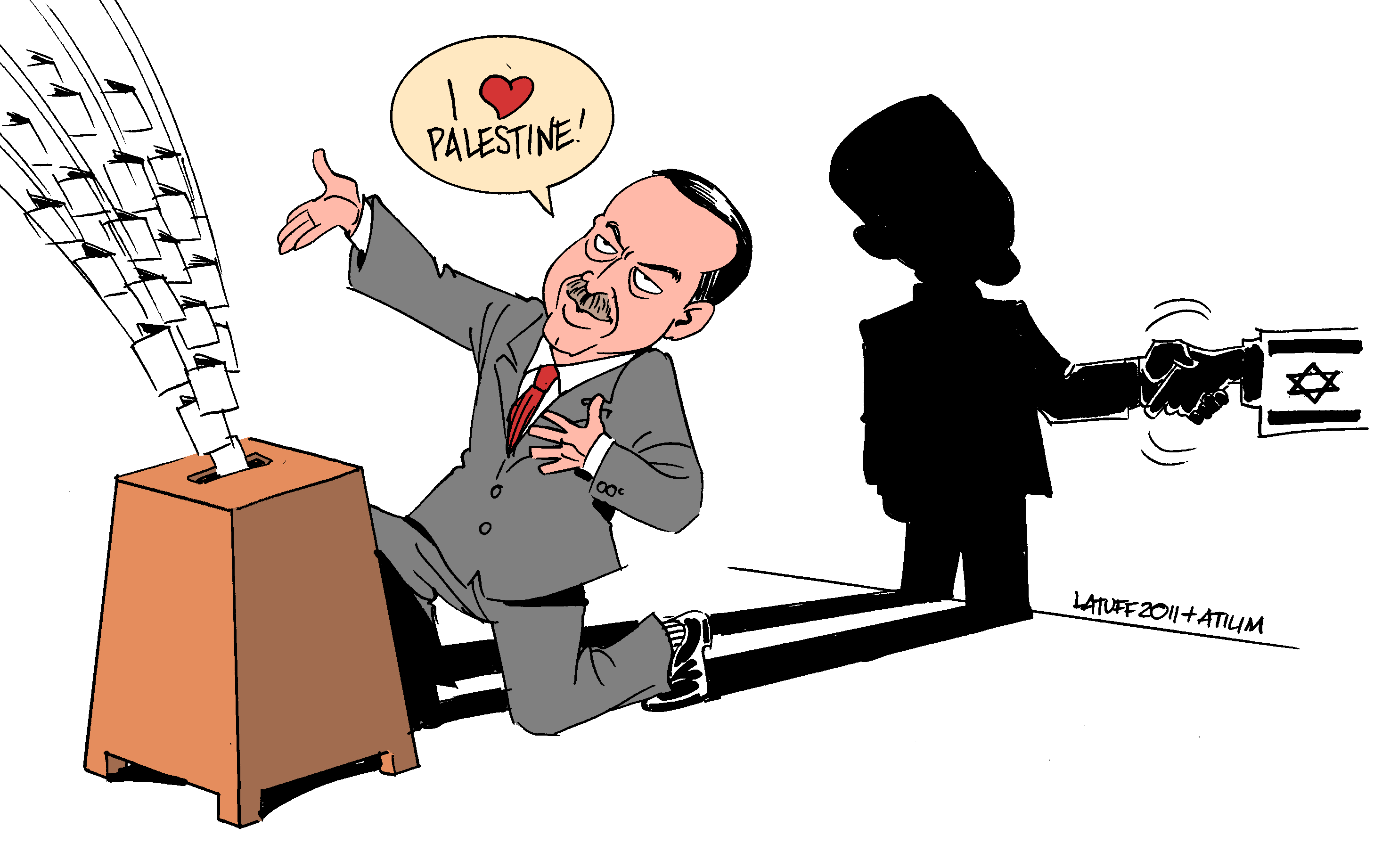 Erdogan waving flag of Palestine to get simpathy of his voters while keep Turkey's ties with Israel & US